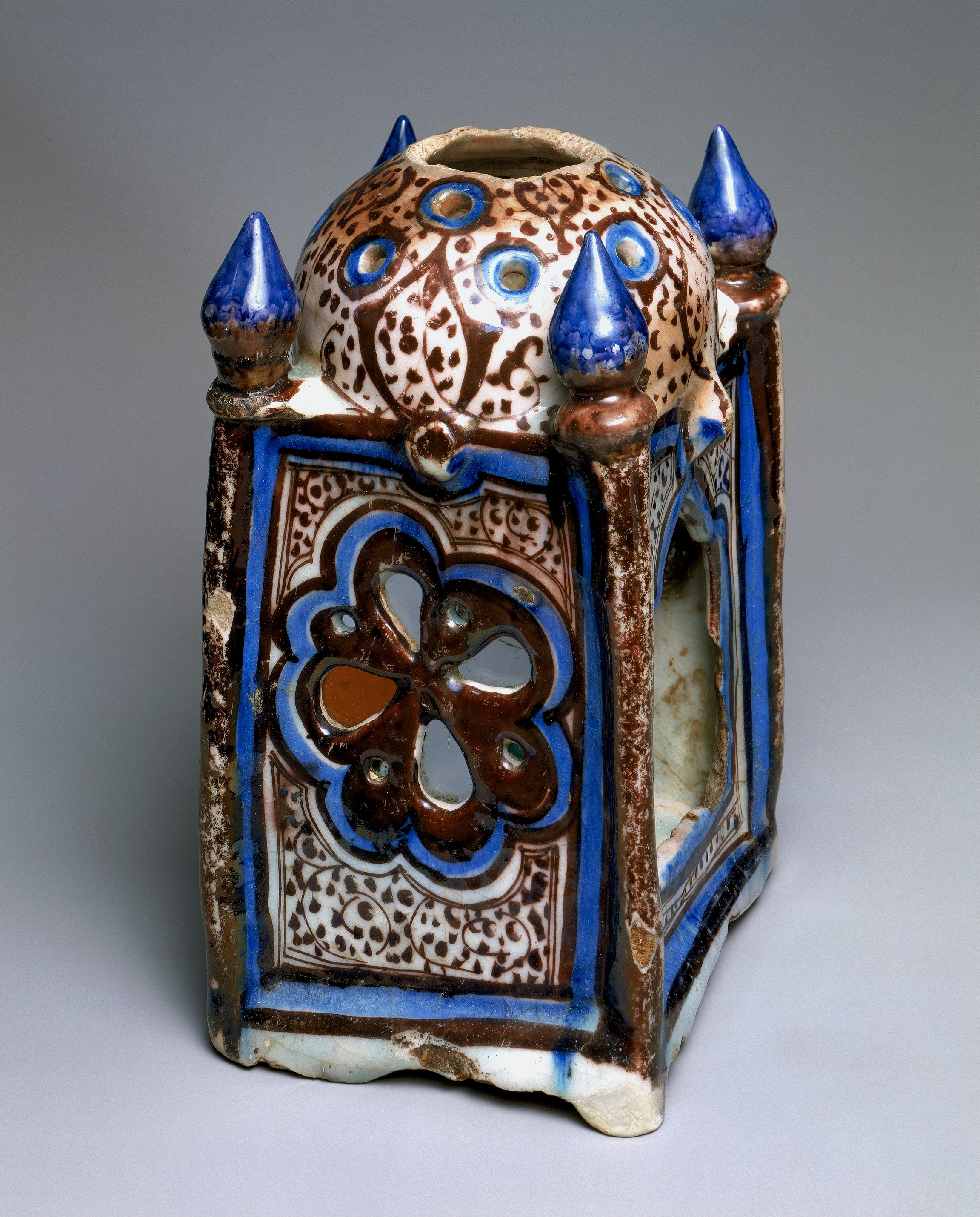 Lantern; Ceramics-Tiles